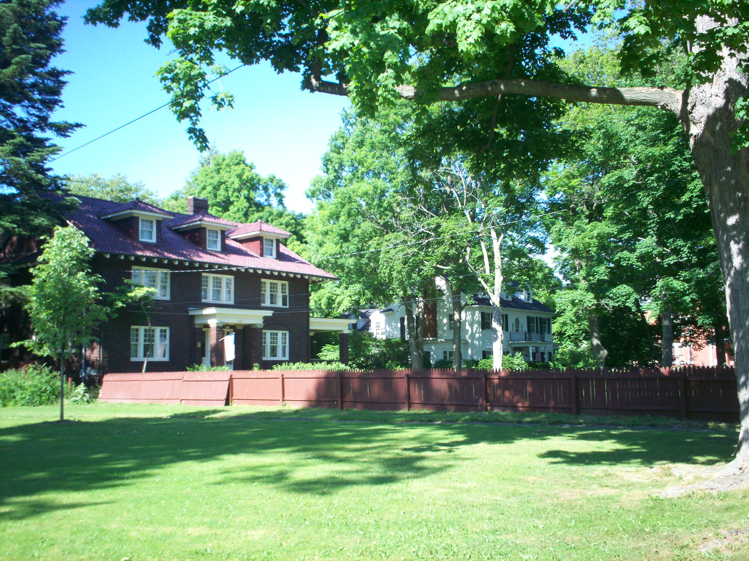 Photo of houses in the West Main Street District in Kent, Ohio.